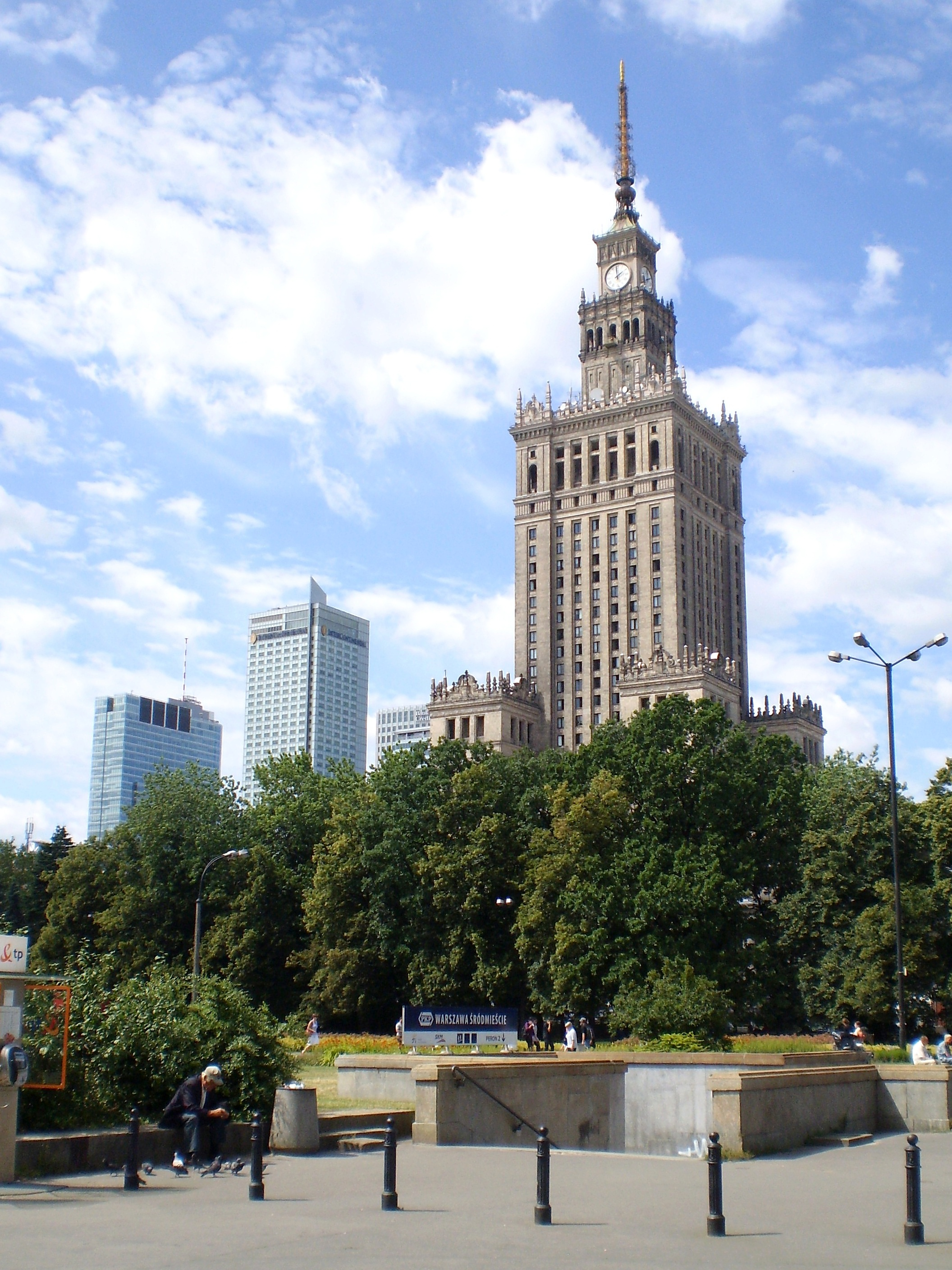 Palace of Culture and Science in Warsaw, Poland